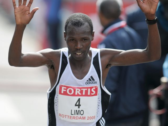 Richard_Limo during Rotterdam Marathon 2008